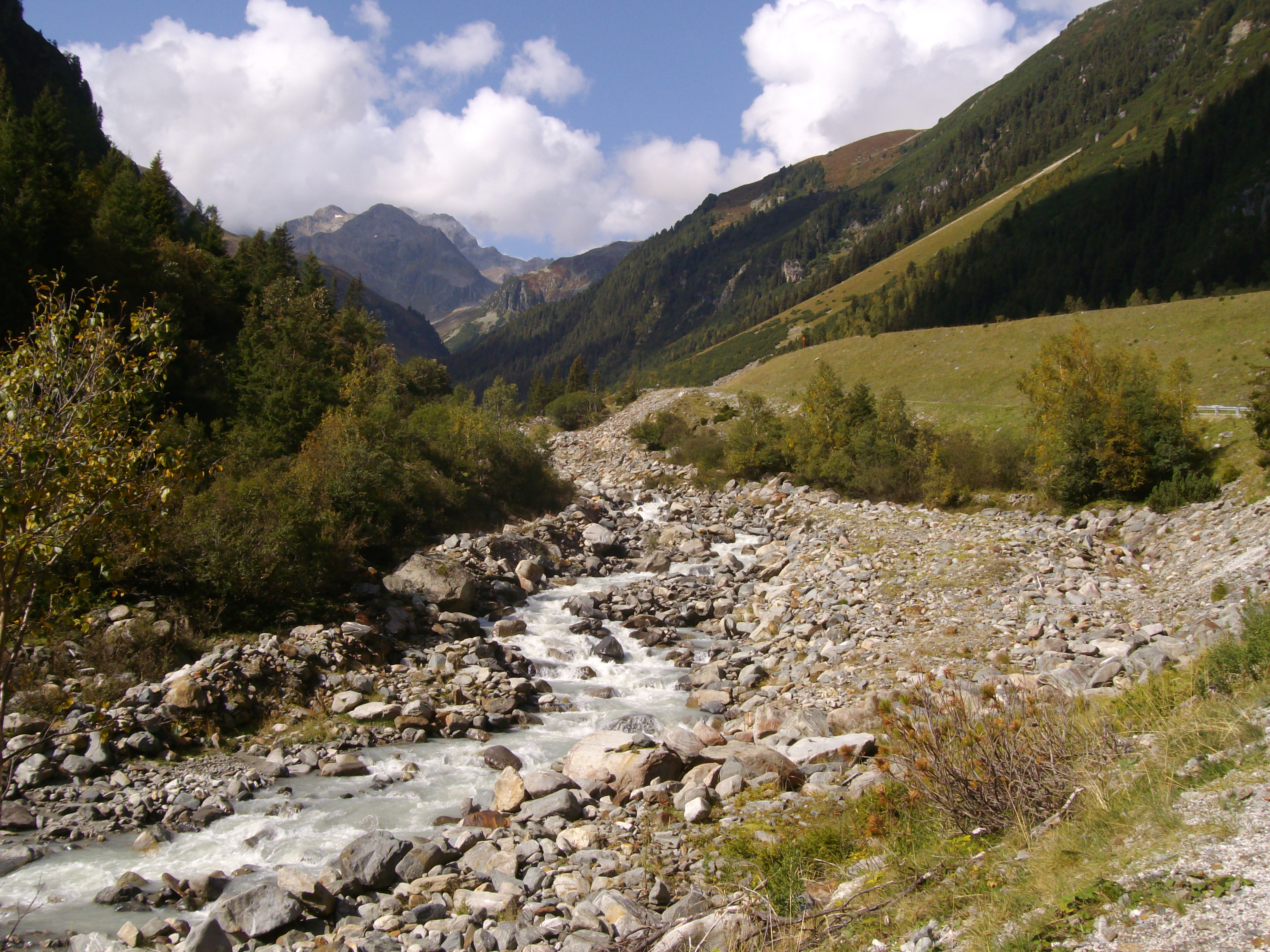 Stubaital, the Reutz stream in the Unterbergtal (part of Stubaital).